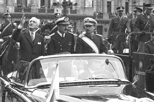 Arturo Illia, President of Argentina; Admiral Benigno Varela, Navy Chief of Staff; and General Juan Carlos Onganía, Head of the Military Joint Chiefs, during President Illia's inaugural parade on October 12, 1963. The vehicle, a 1954 Cadillac Series 62 Convertible, was used in every presidential inaugural parade from Arturo Frondizi's in 1958 to Néstor Kirchner's in 2003.